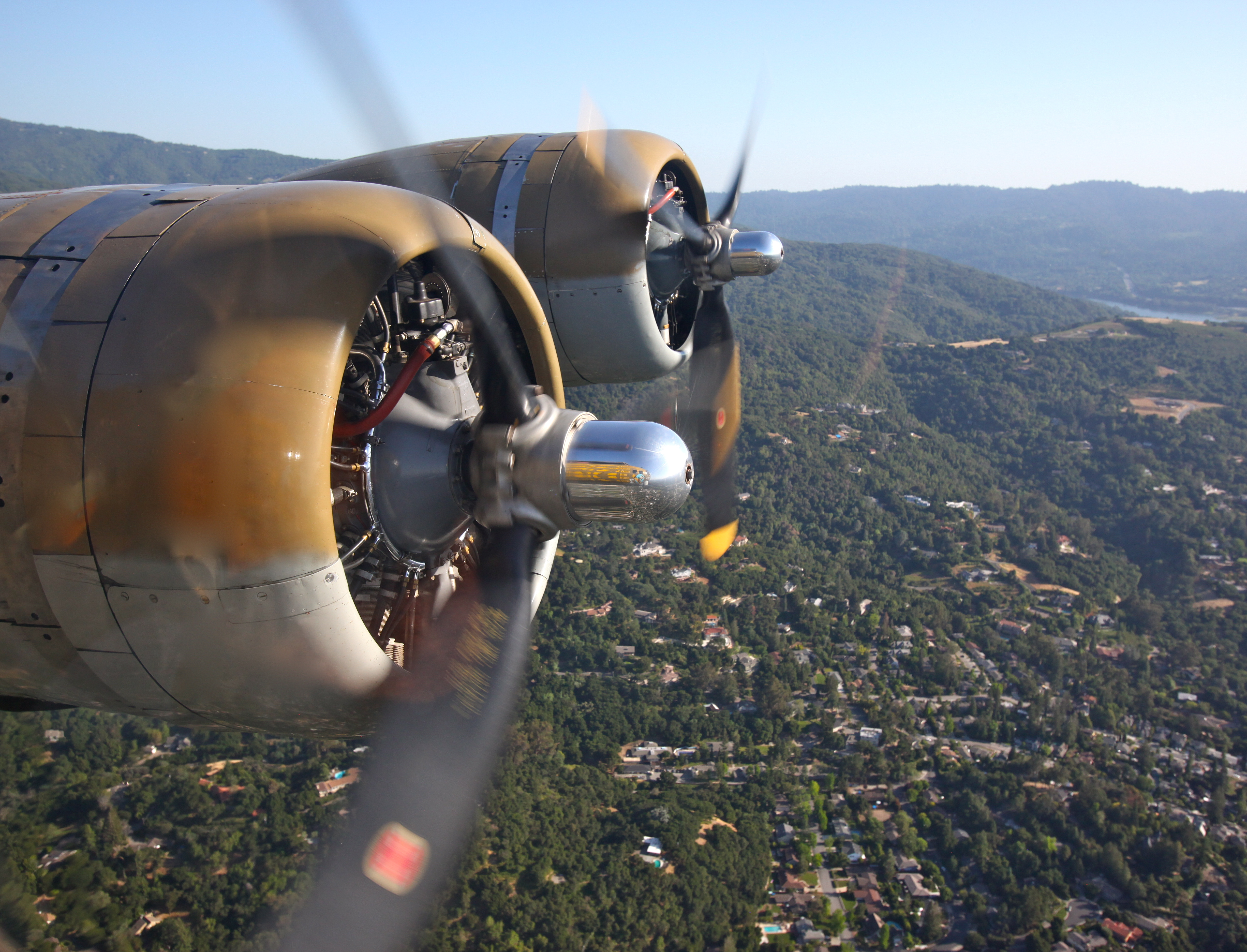 Wright Cyclone GR-1820-65 radial engines of the B-17 "Nine-O-Nine"